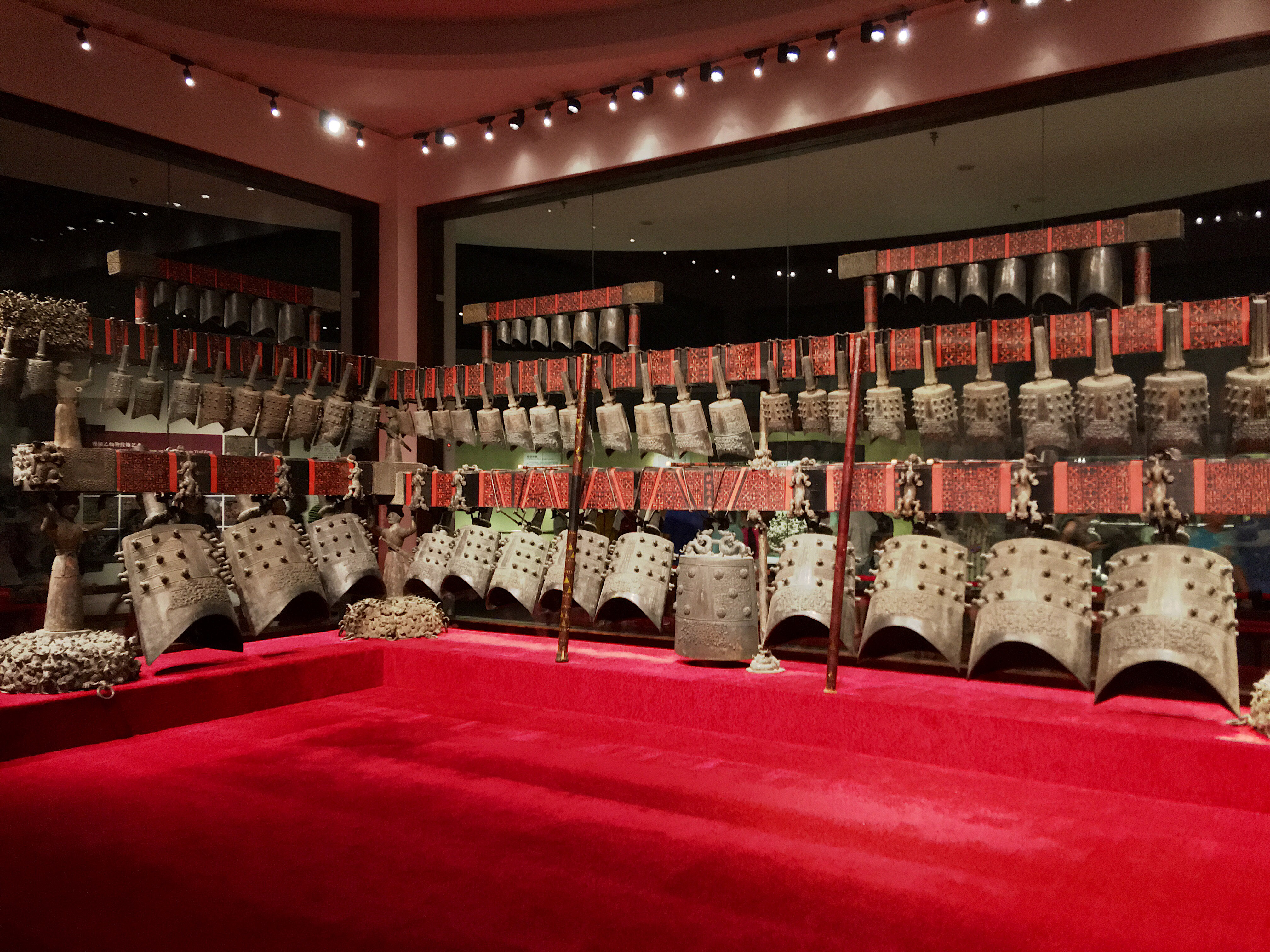 Bianzhong of Marquis Yi of Zeng, shot at the Hubei Provincial Museum.